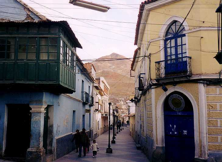 Potosi street with Cerro Rico